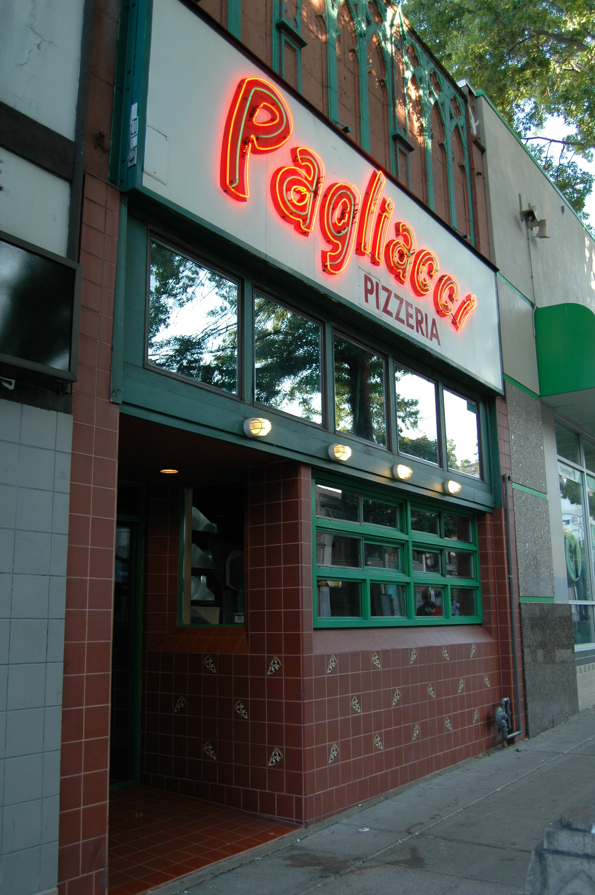 Exterior of Pagliacci Pizza in Seattle's University District.